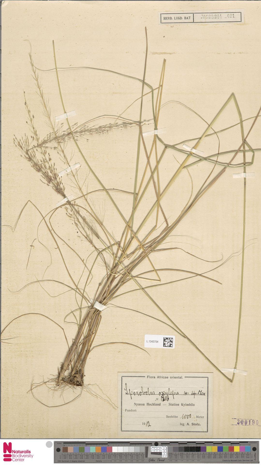 Sporobolus oxylepsis Mez (type of) - Sporobolus oxylepsis Mez (species). Accepted name: Sporobolus sanguineus